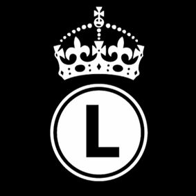 Logo of Lady Leshurr